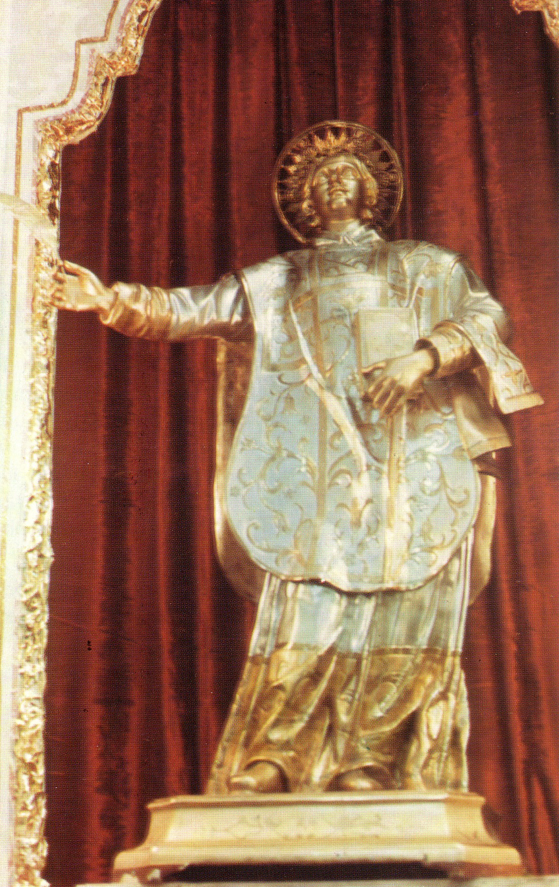 Statua di San Felice, Patrono di Pomigliano d'Arco